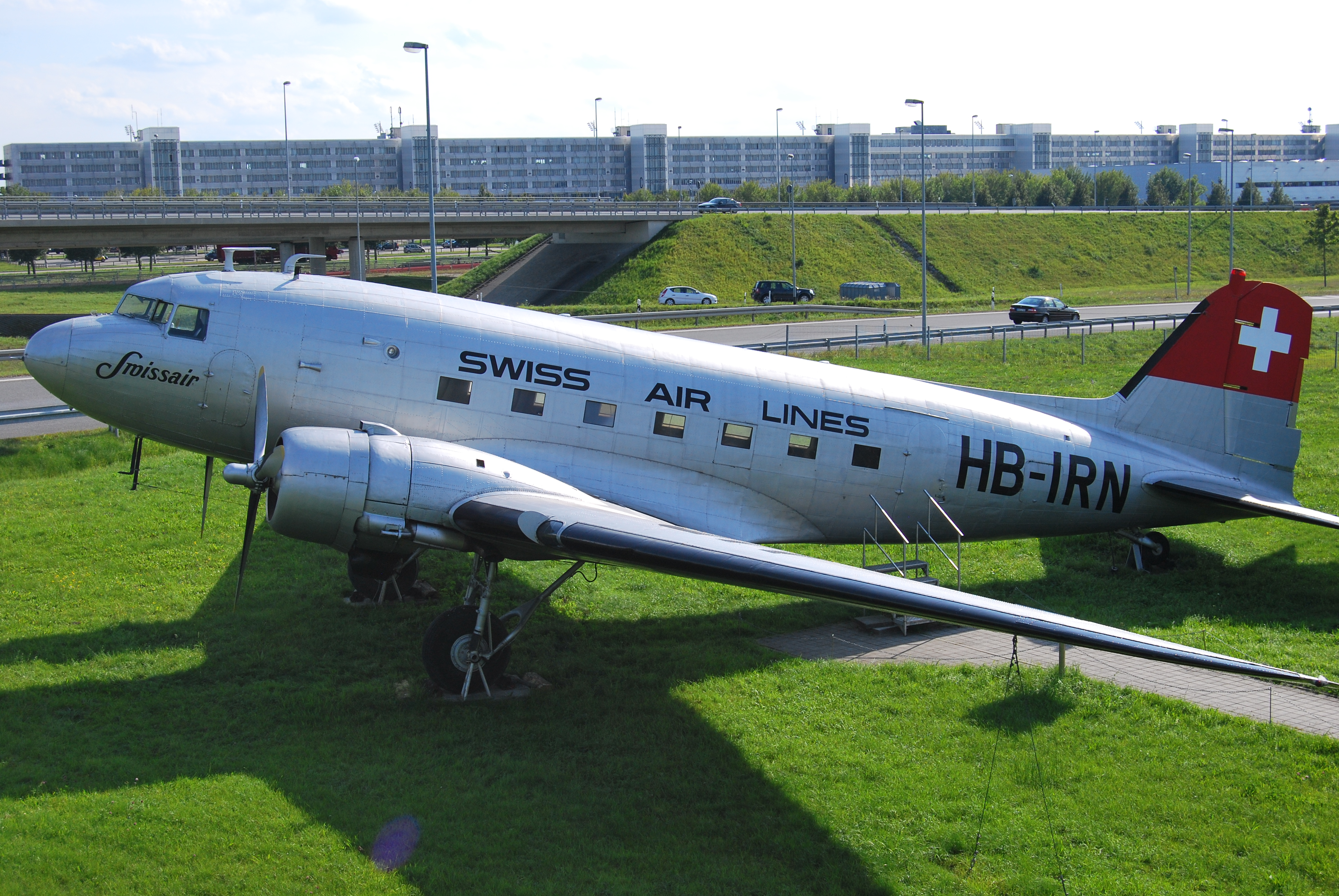 Douglas DC-3 HB-IRN at Munich Airport Besucherpark